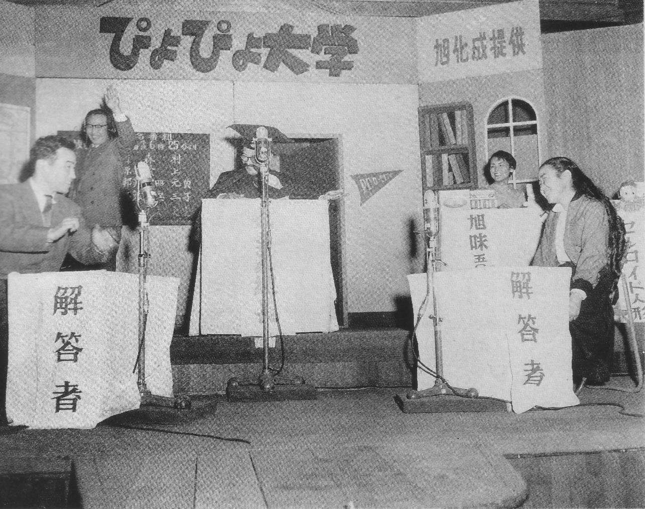 Hisaya Morishige (left. Right eldest daughter of Morishige) to appear on the radio program.